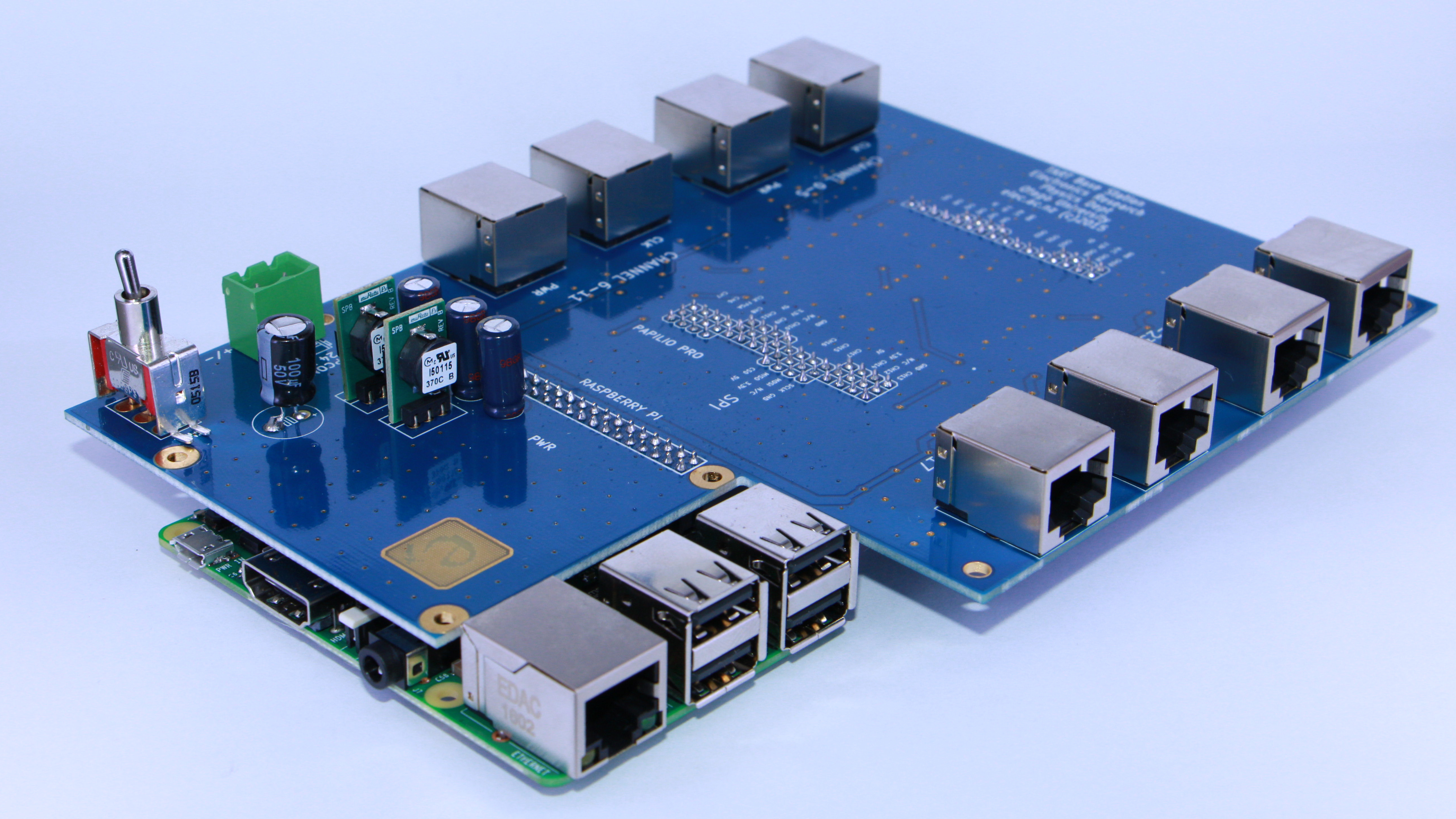 The basestation electronics of a TART-2 radio telescope, with the raspberry-pi mounted below (and the FPGA hidden underneath the main part of the board)